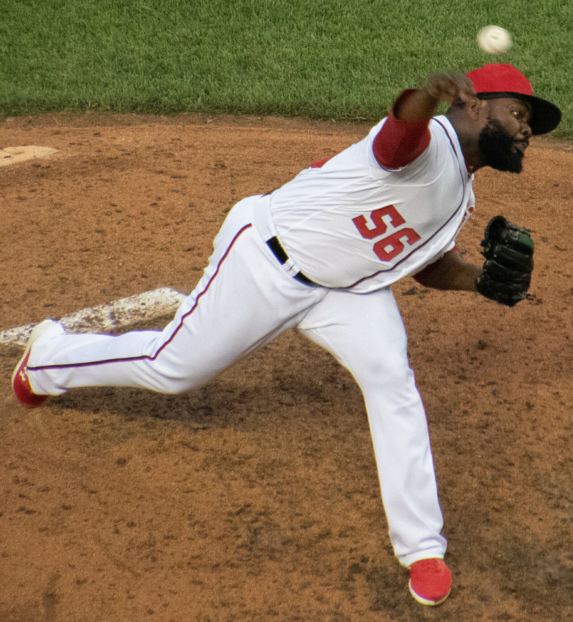 Fernando Rodney